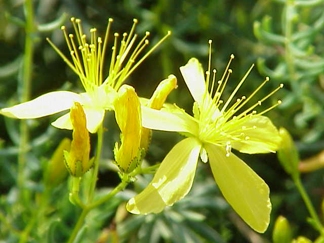 Species: Hypericum coris Family: Hypericaceae Image No. 2